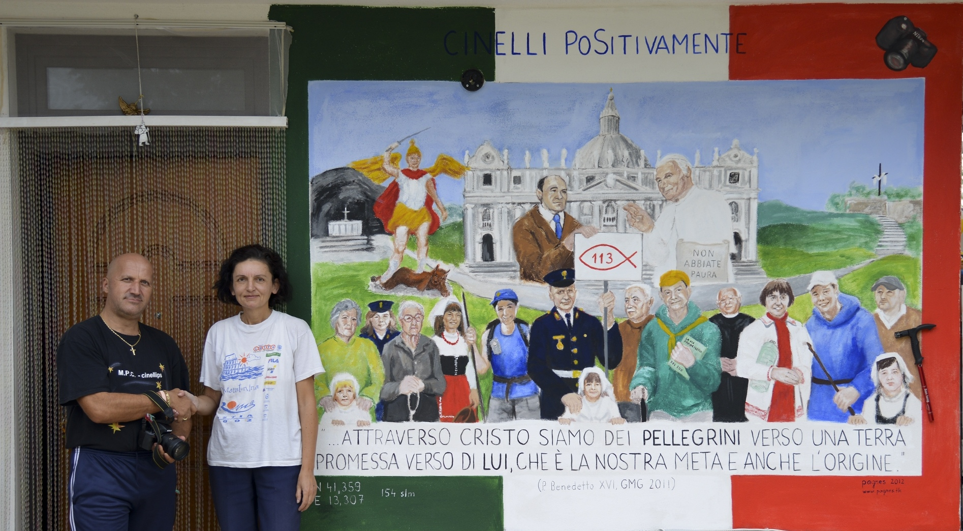 via Francigena Sud, 113, painter: Agnes Preszler